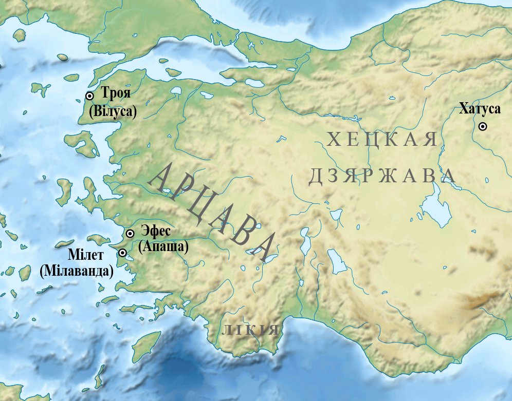 Map of Arzawa in Belarusian